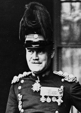 Portrait shot of Col. Athanasios Exadaktylos